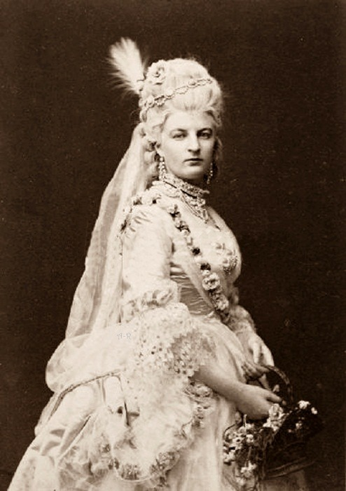 Amalie of Saxe Coburg and Gotha, Duchess in Bavaria